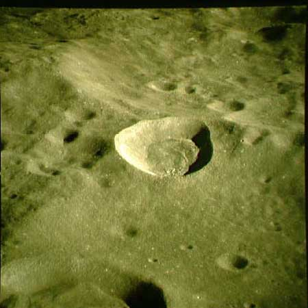 Apollo 10's AS10-34-5172 shows the bright crater Ventris M at the southern part of Ventris's rim. This (AS10-34-5172) is one of the most reproduced orbital Hasselblad photographs of a crater on the moon's Far Side